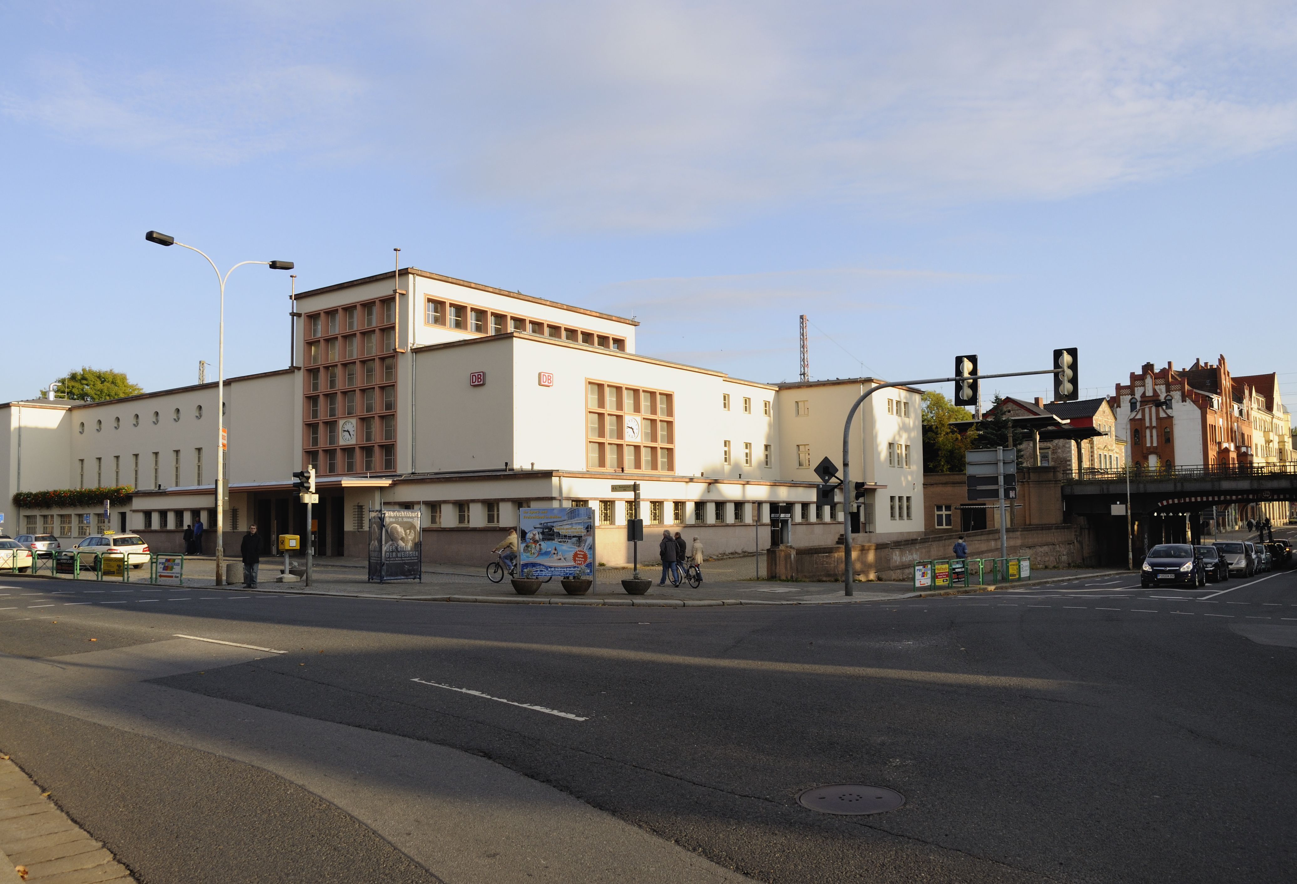 Picture taken in Meissen while dewiki’s mentorship program meetup. Station, "Dresdener Straße" on the right.